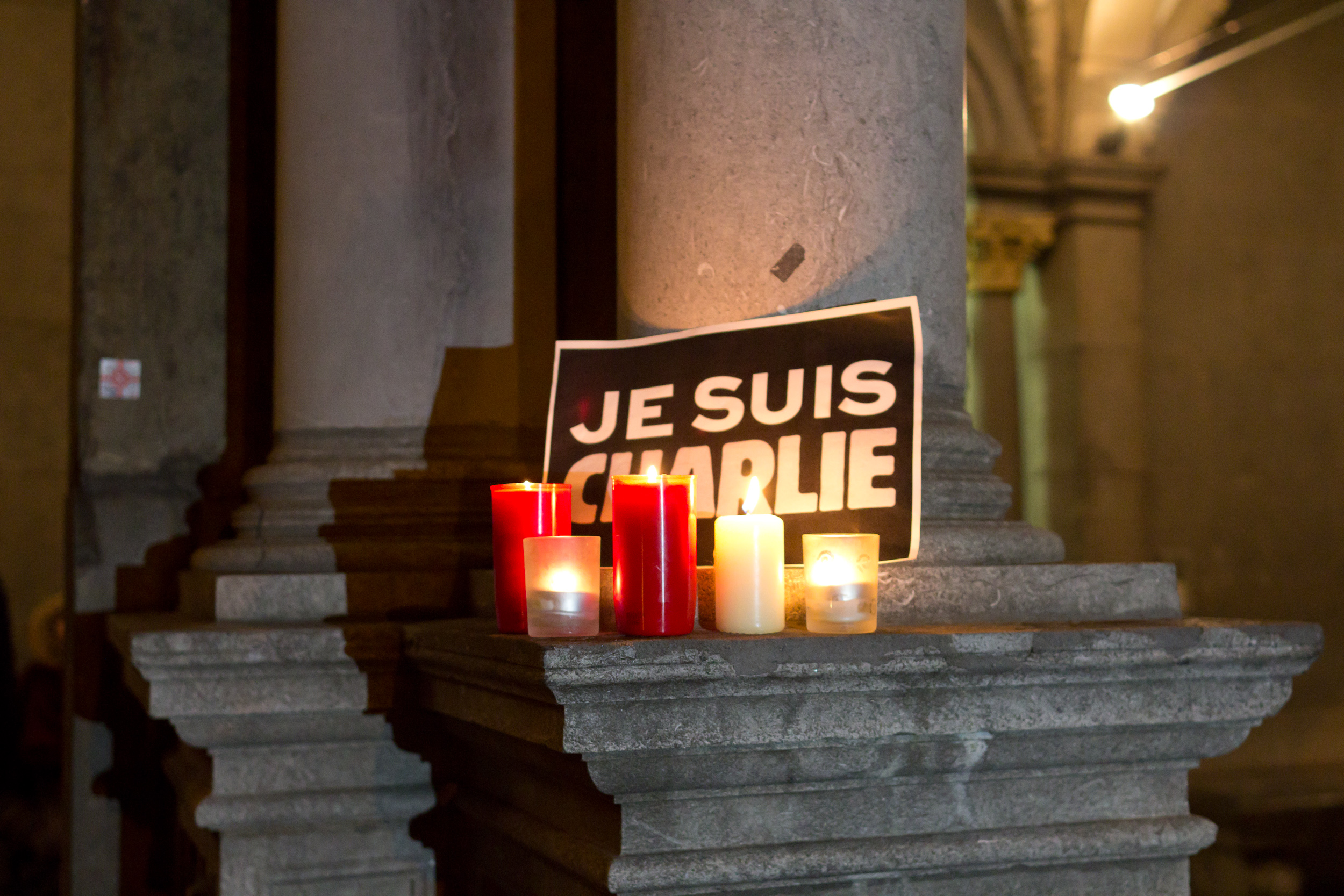 Rally in front of the old Cologne town hall in support of the victims of the 2015 Charlie Hebdo shooting